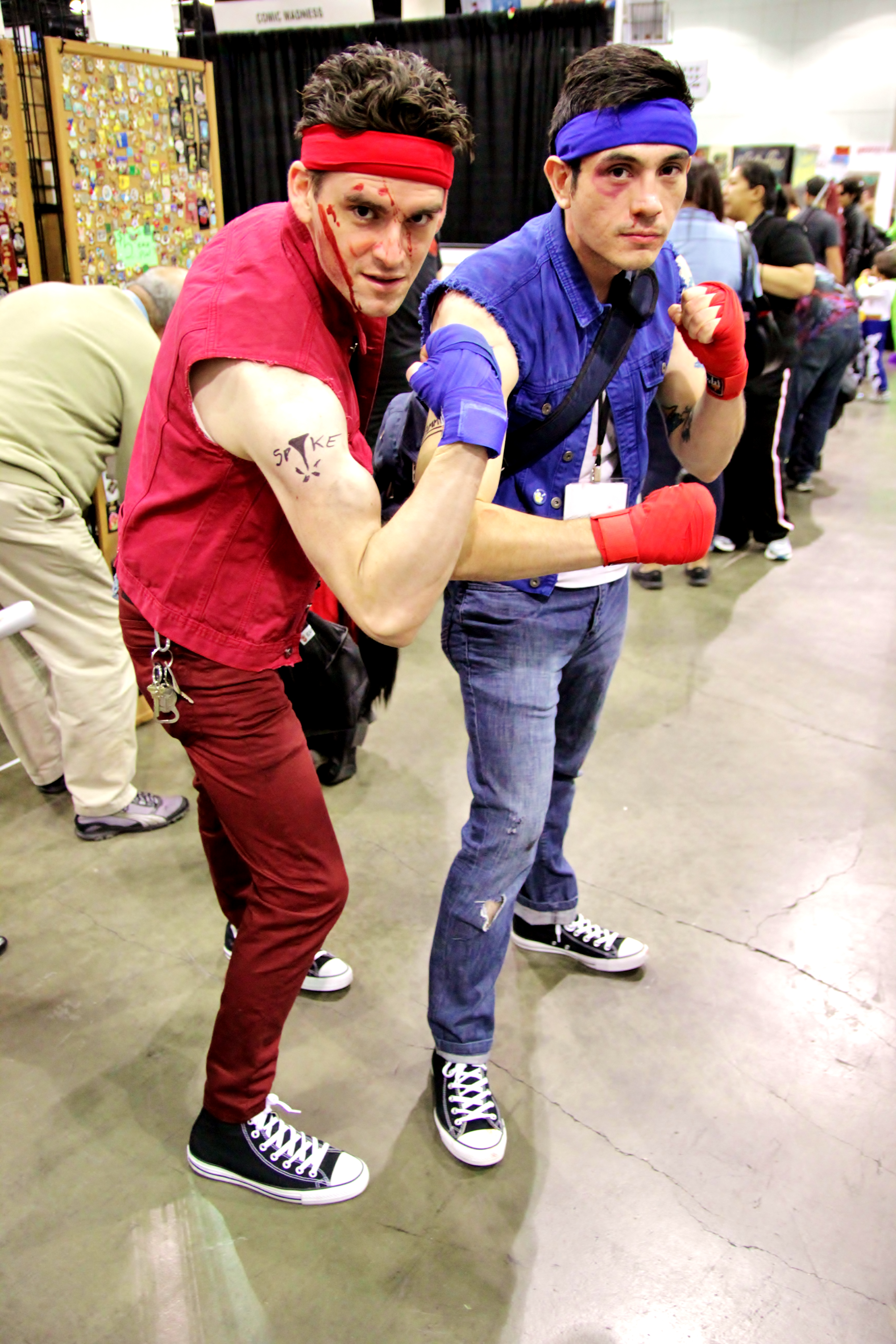 Cosplay of the video game Double Dragon at Stan Lee's Comikaze 2014.